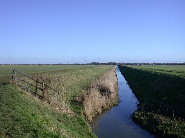 New Cut. Just round the corner from 175840. This section points almost straight at All Saints' church in TL4568